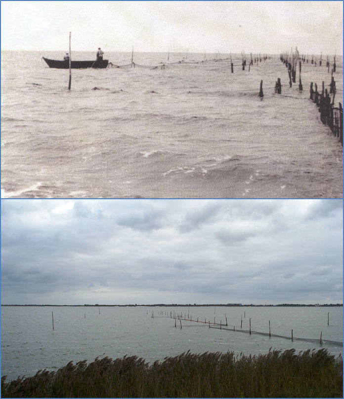 Zuiderzee then, IJsselmeer now